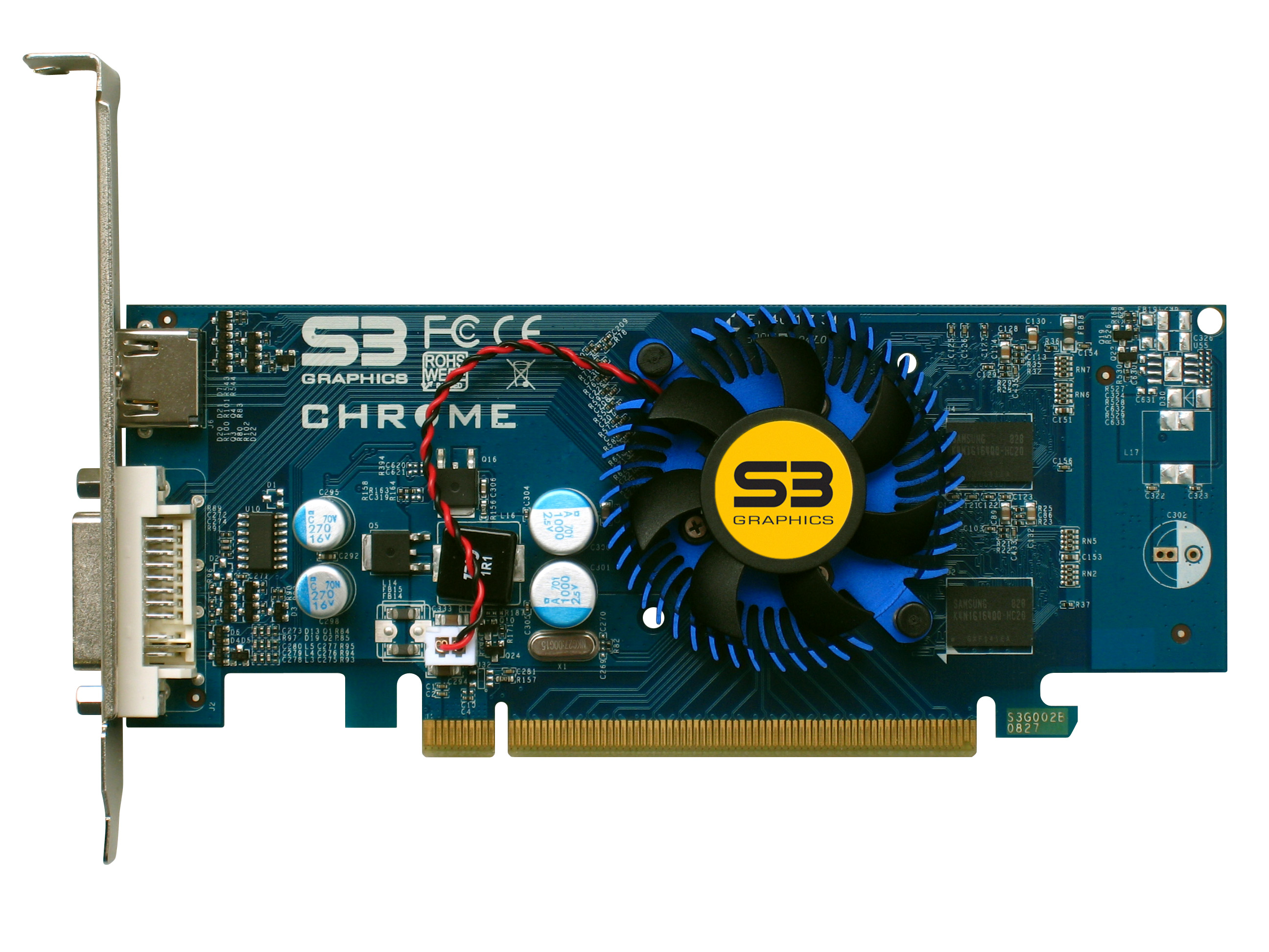 S3 Graphics Chrome 530 GT